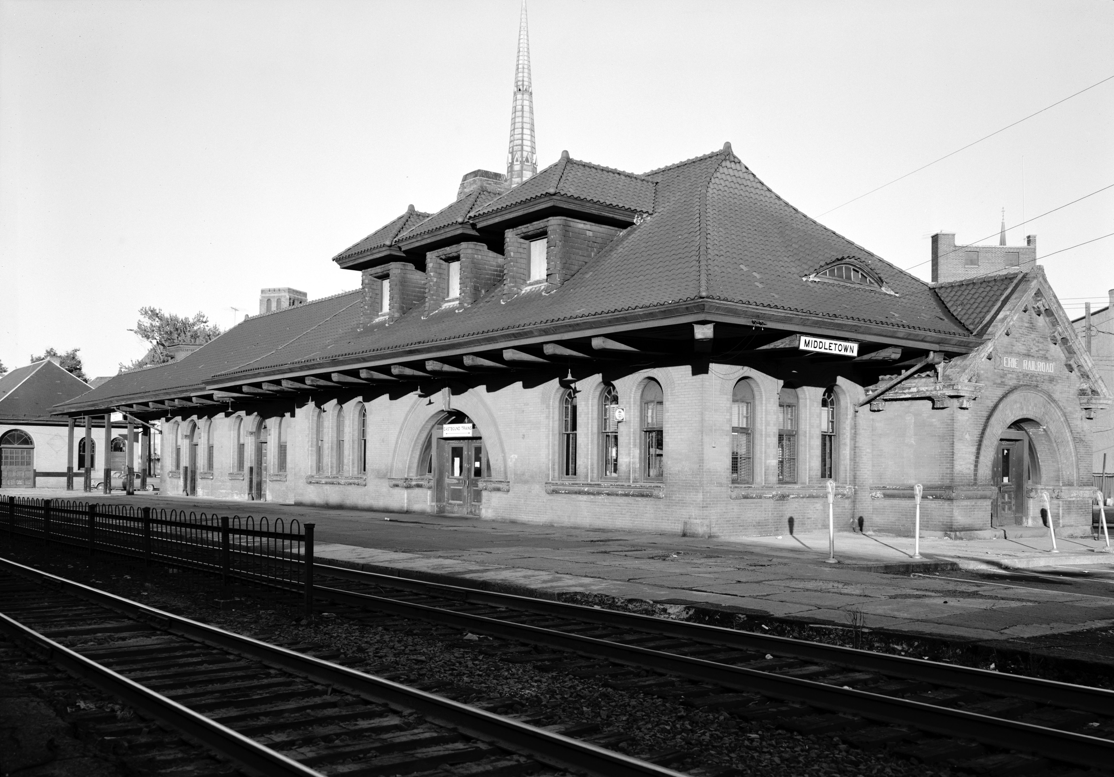 Erie Railway, Middletown Station, James Street, Middletown, Orange County, NY Photo taken in July, 1971.